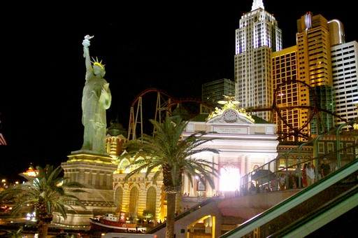 New York New York.